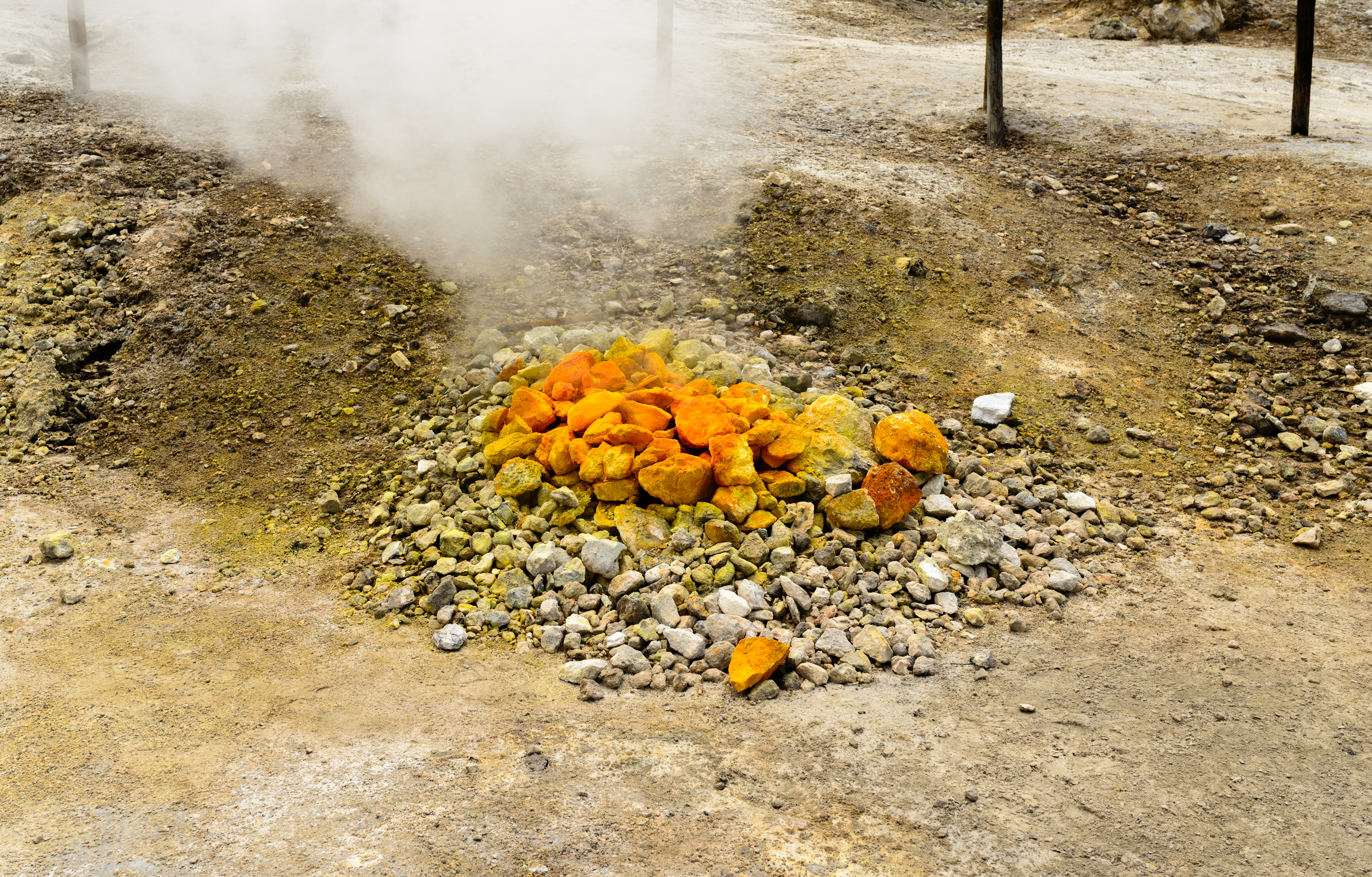 Fumarole, Solfatara (Pozzuoli), Campi Flegrei, Campania, Italy.